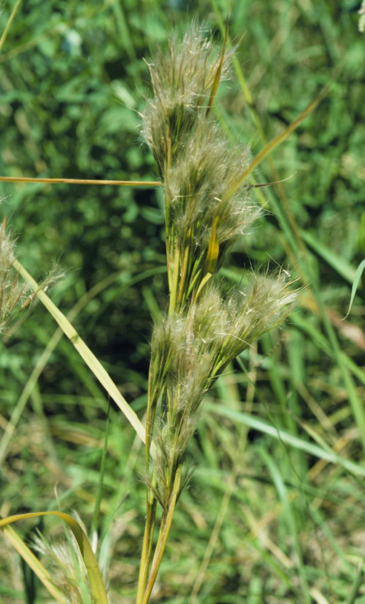 Both the dense hairs and many spikes terminating the lateral branches render the bushy appearance of Andropogon glomeratus.